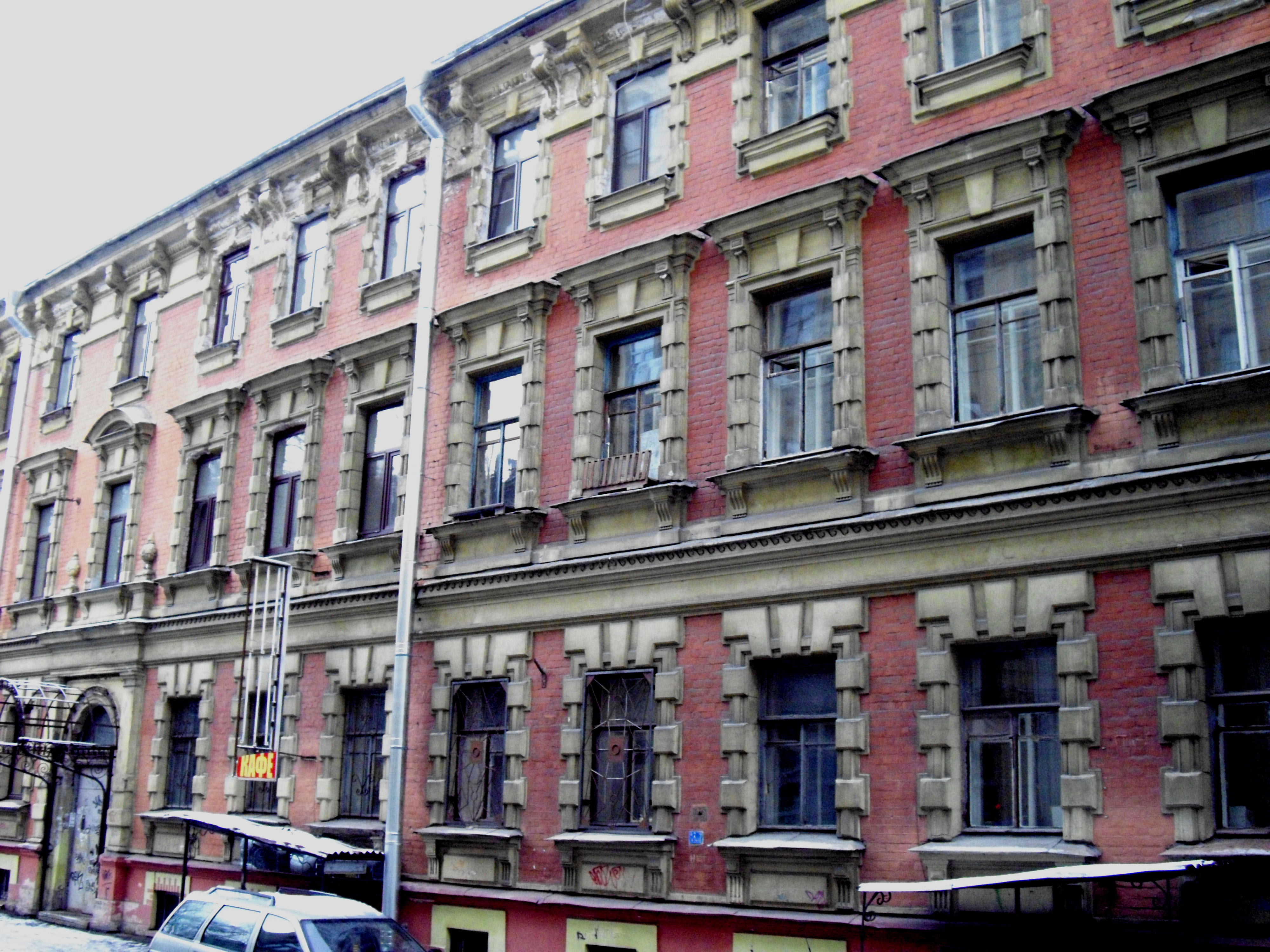 3, Kolpinskaya Street, Saint Petersburg (1888, house of Andrei Vassiliev, architect Alexandre Ivanov)